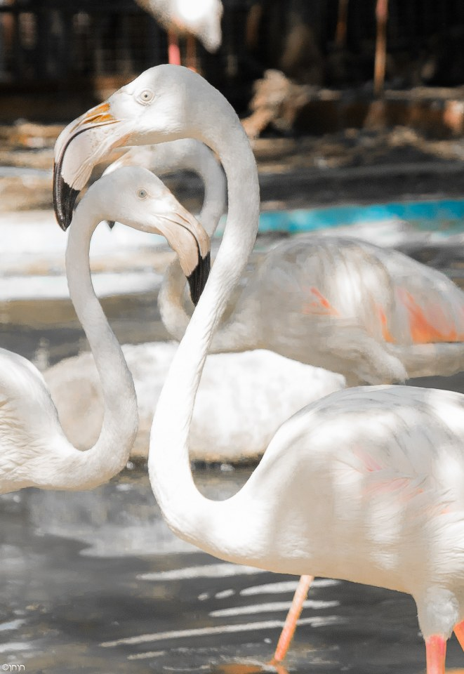 flamingo